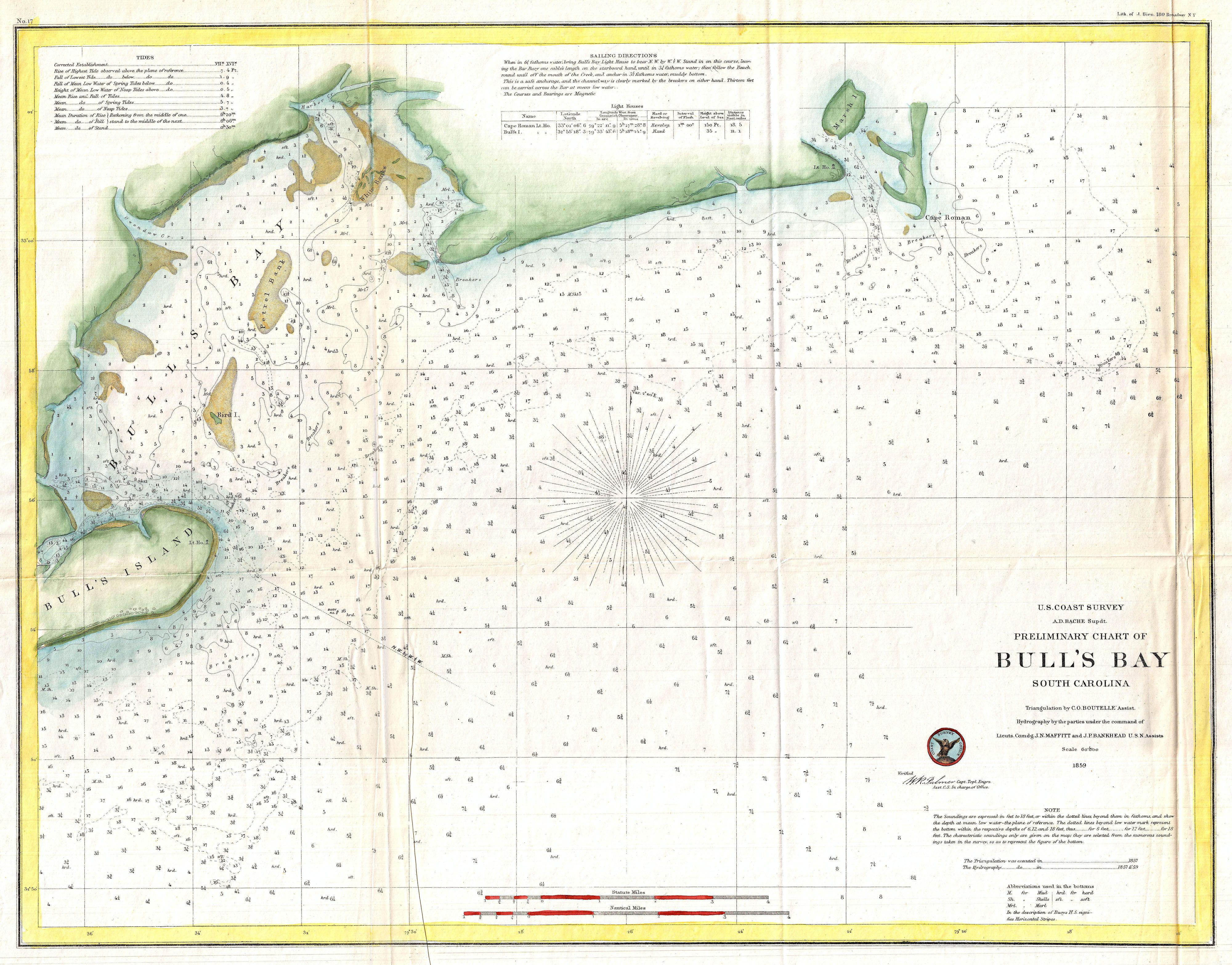 A very attractive example of the rare 1859 U.S. Coast Survey map or nautical chart of Bull’s Bay South Carolina. Situated along the South Carolina coast just north of Charleston, Bull’s Bay and Bull’s Island are adjacent to the Francis Marion National Forest. Features countless depth soundings as well as notes on tides, shoals, breakers, and other undersea dangers. Sailing directions appear at top center. The triangulation for this map was completed by C. O. Boutelle. The Hydrography was accomplished by a party under the command of J. N. Maffitt and J. B. Bankhead. The whole was completed under the direction of A. D. Bache, one of the most influential and prolific Superintendents of the U.S. Coast Survey. Published in the 1859 edition of the Superintendent’s Report to Congress.